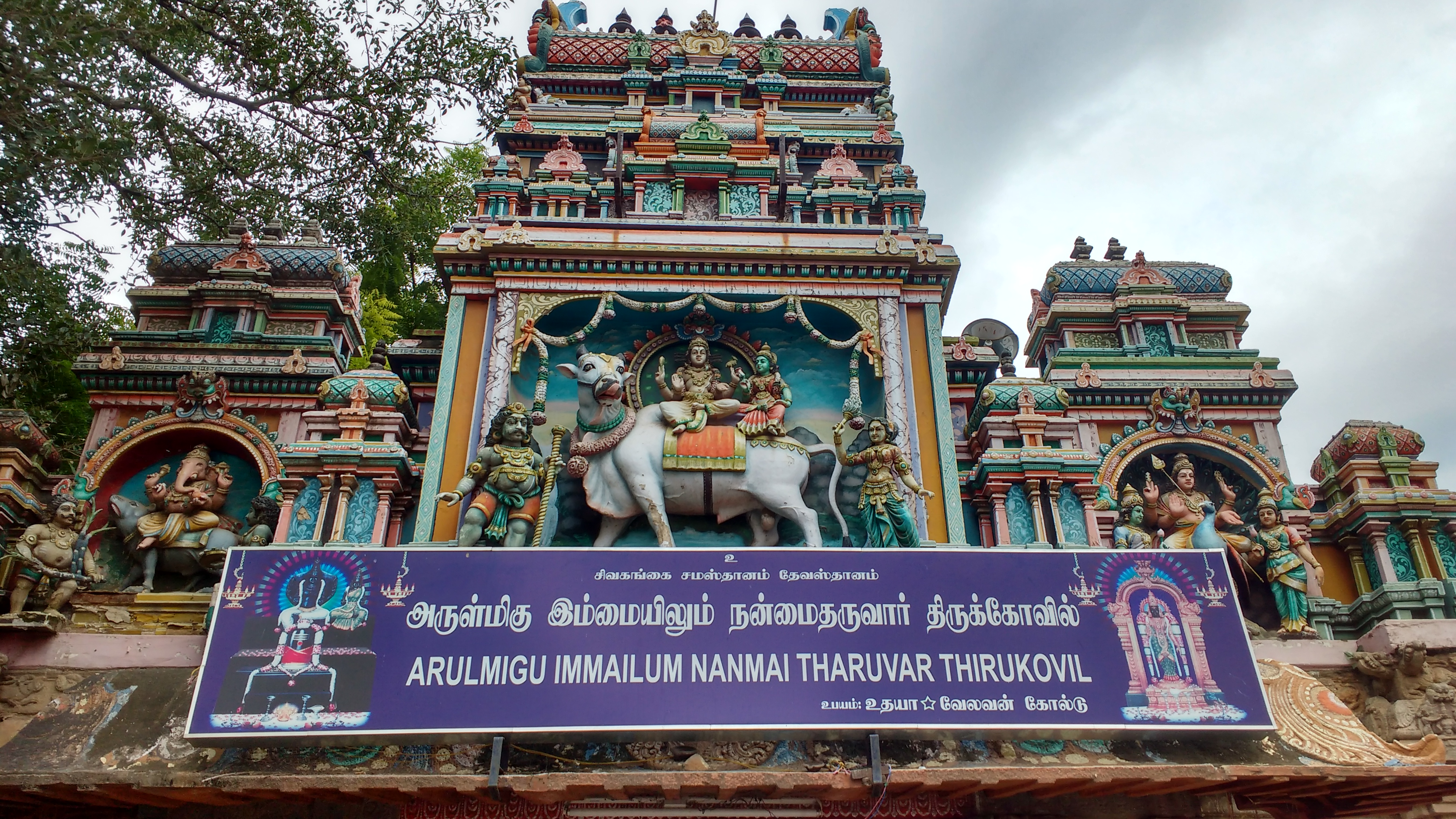 இம்மையிலும் நன்மை தருவார் கோயில், மதுரை